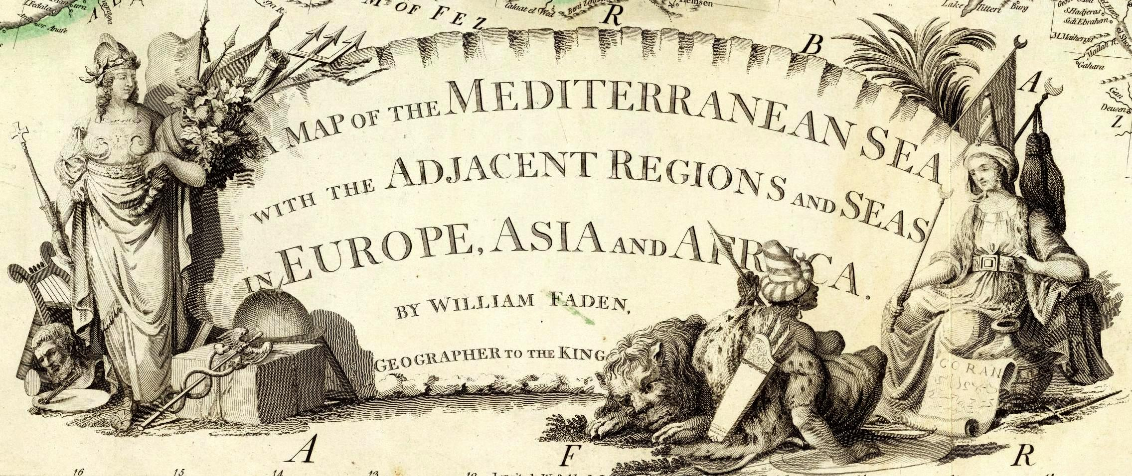 (Composite of) A map of the Mediterranean Sea with the adjacent regions and seas in Europe, Asia and Africa. By William Faden, Geographer to the King. London, printed for Wm. Faden, Charing Cross, March 1st, 1785.